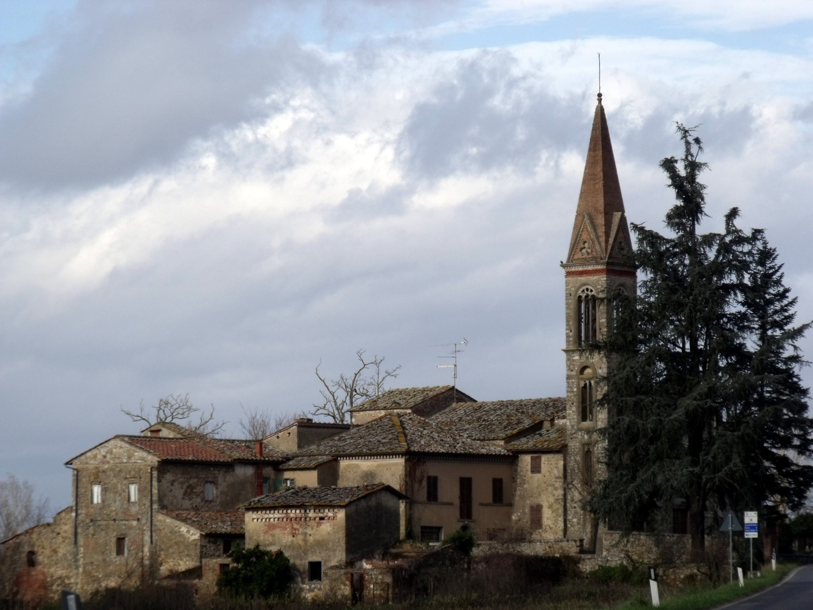 Pieve San Quirico in Capannole, hamlet of Bucine, Province of Arezzo, Tuscany, Italy